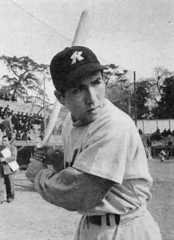 Yukihiko Machida